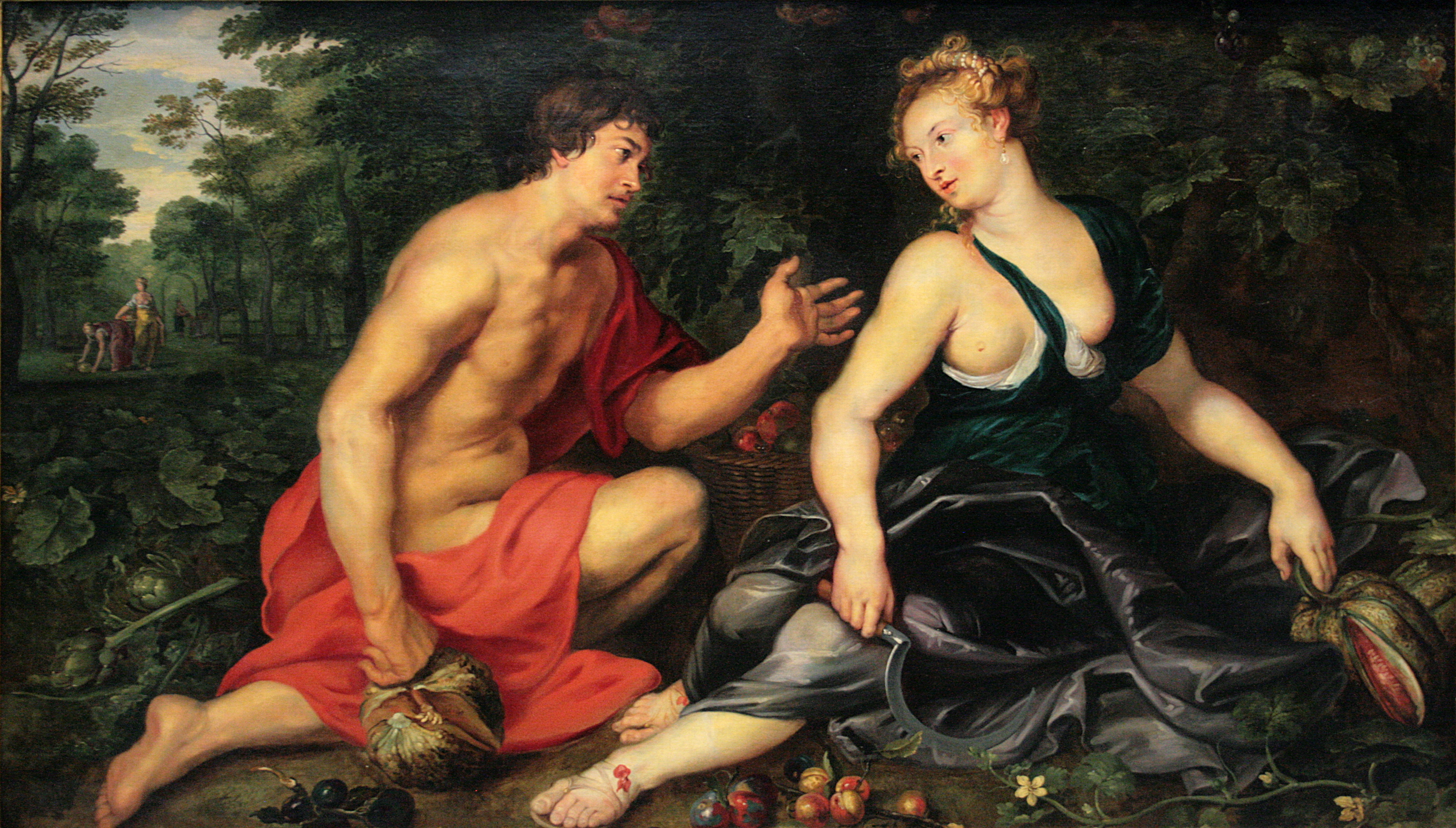 on loan by a private collection of Madrid, photographed during the exhibition " Rubens et son Temps " (Rubens and His Time) in the Louvre-Lens Museum.